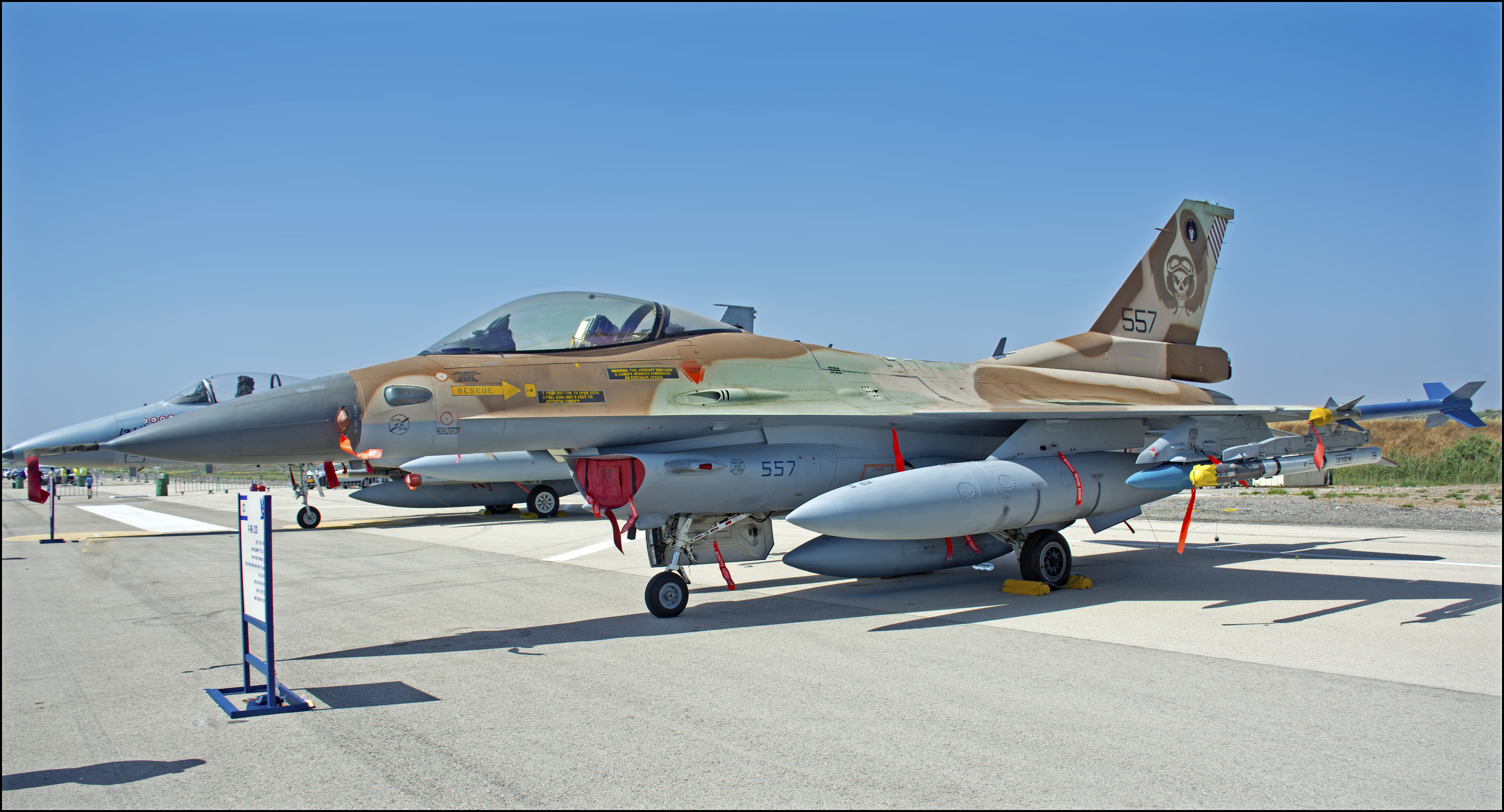 IAF F-16C Barak 2020, Independence Day 2017